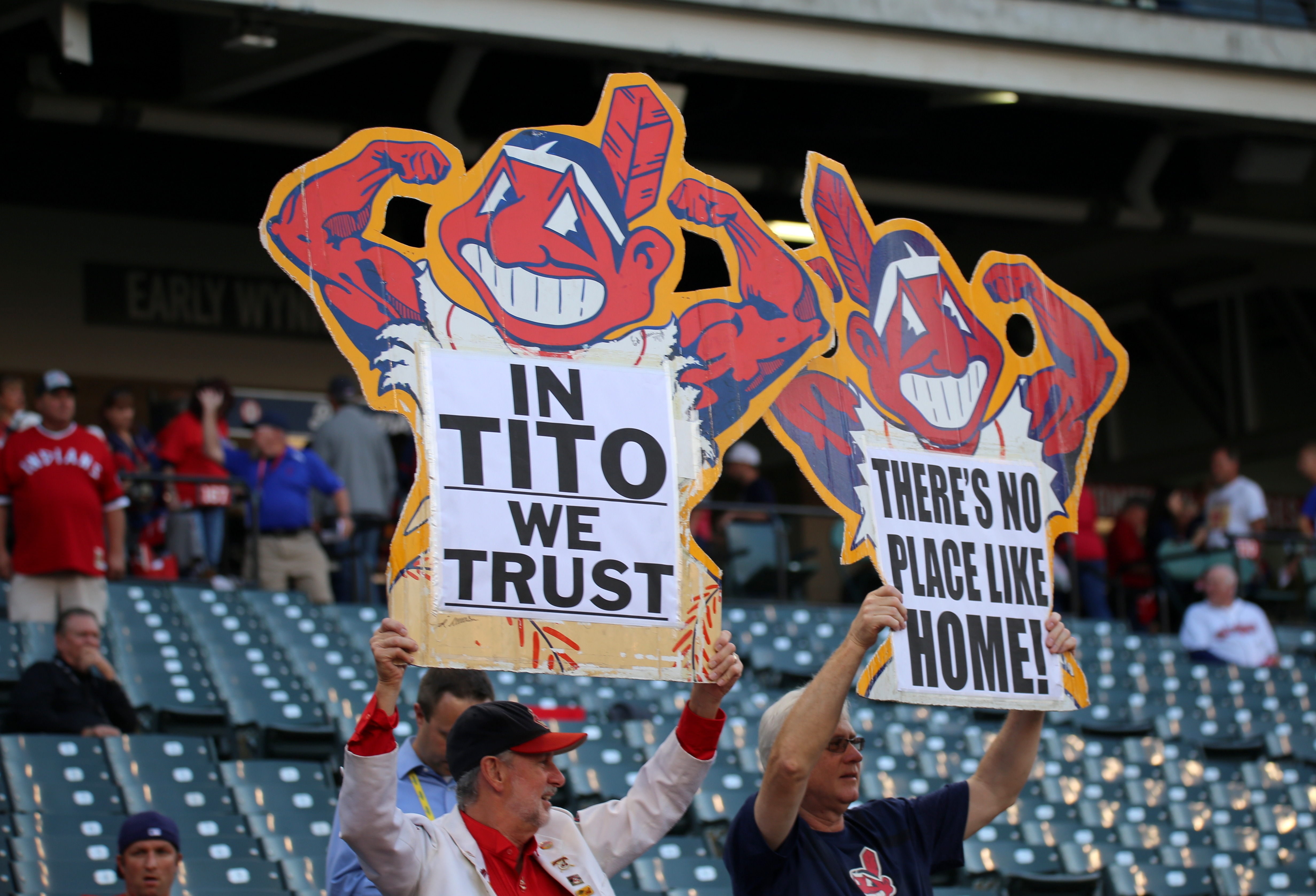 Indians fans are pumped for the ALDS.